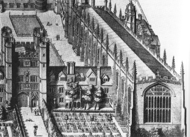 Room in Cambridge where Newton did study. Newton's rooms at Cambridge were located to the right of the gate house on the first floor. The chapel is on the far right and the gate and walk-way on the far left.